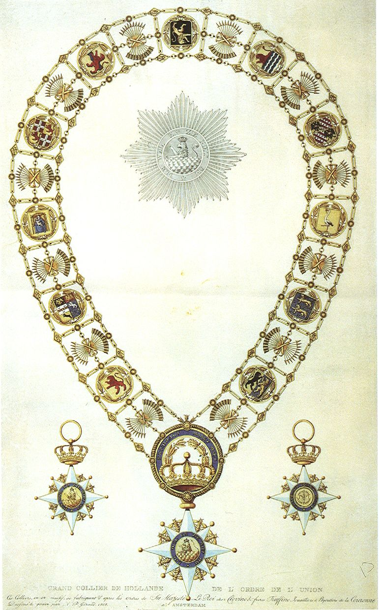 Collar of the Order of the Union, Kingdom of Holland 1807